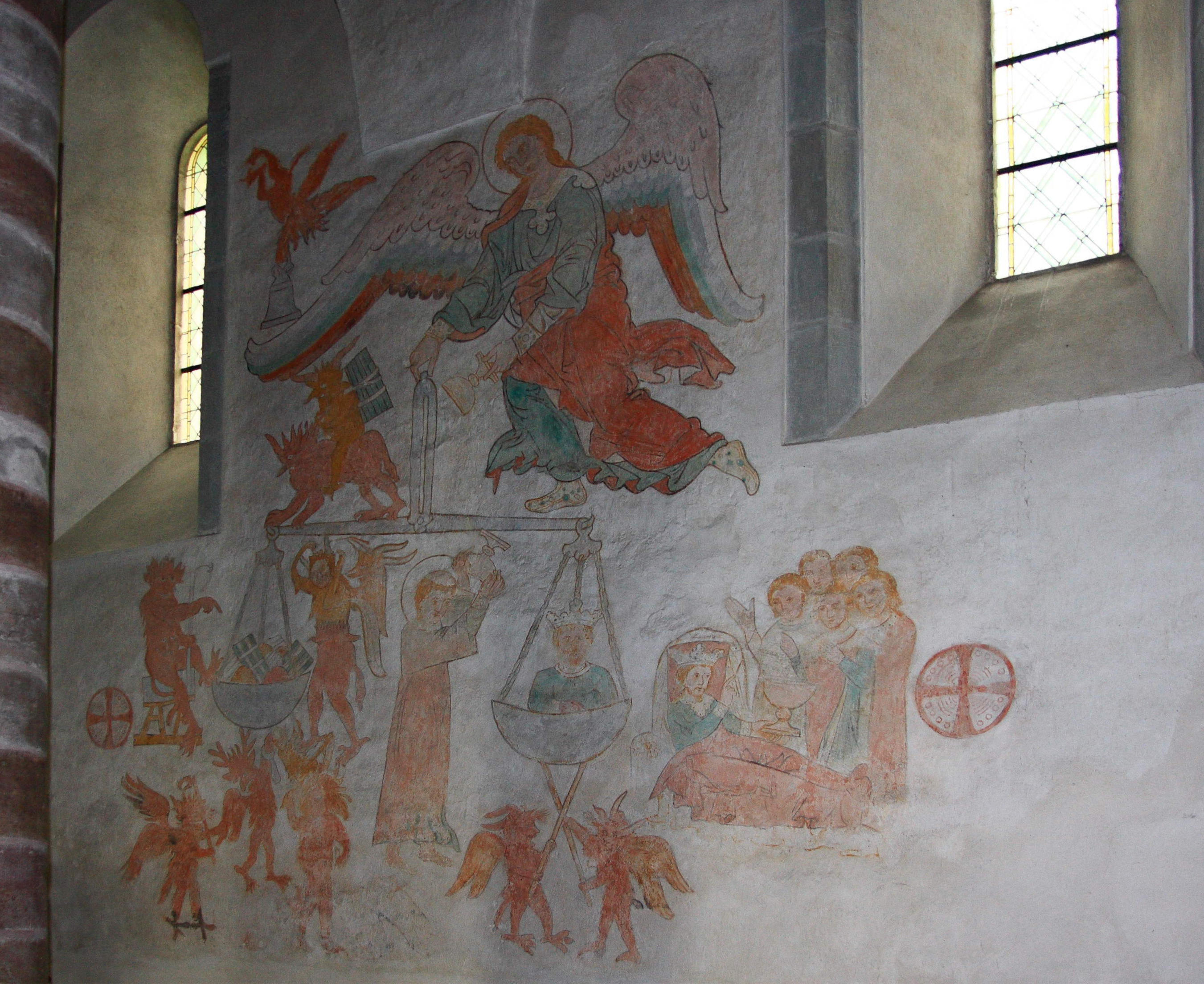 The weighing of the soul of Emperor Henry in the church of Vamlingbo, Gotland.